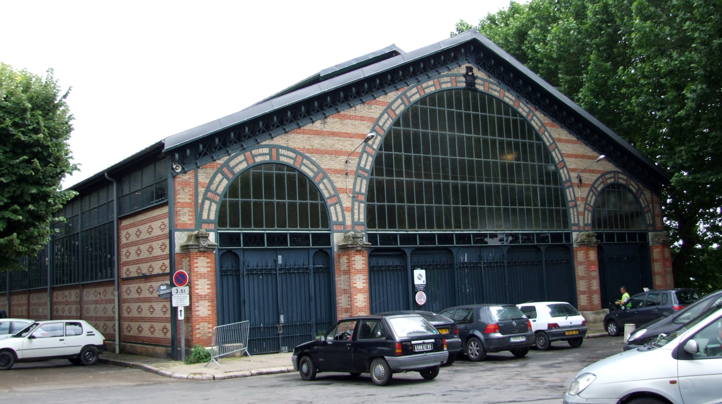 Joigny, Yonne, Burgundy, FRANCE